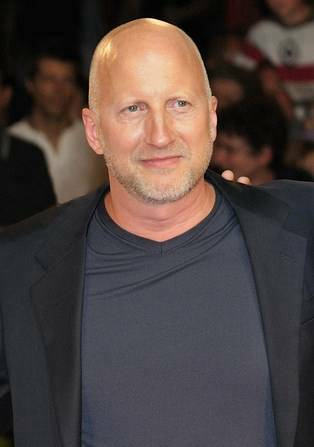 Director John Hillcoat at the 2009 Venice Film Festival for the premiere of the film The Road.